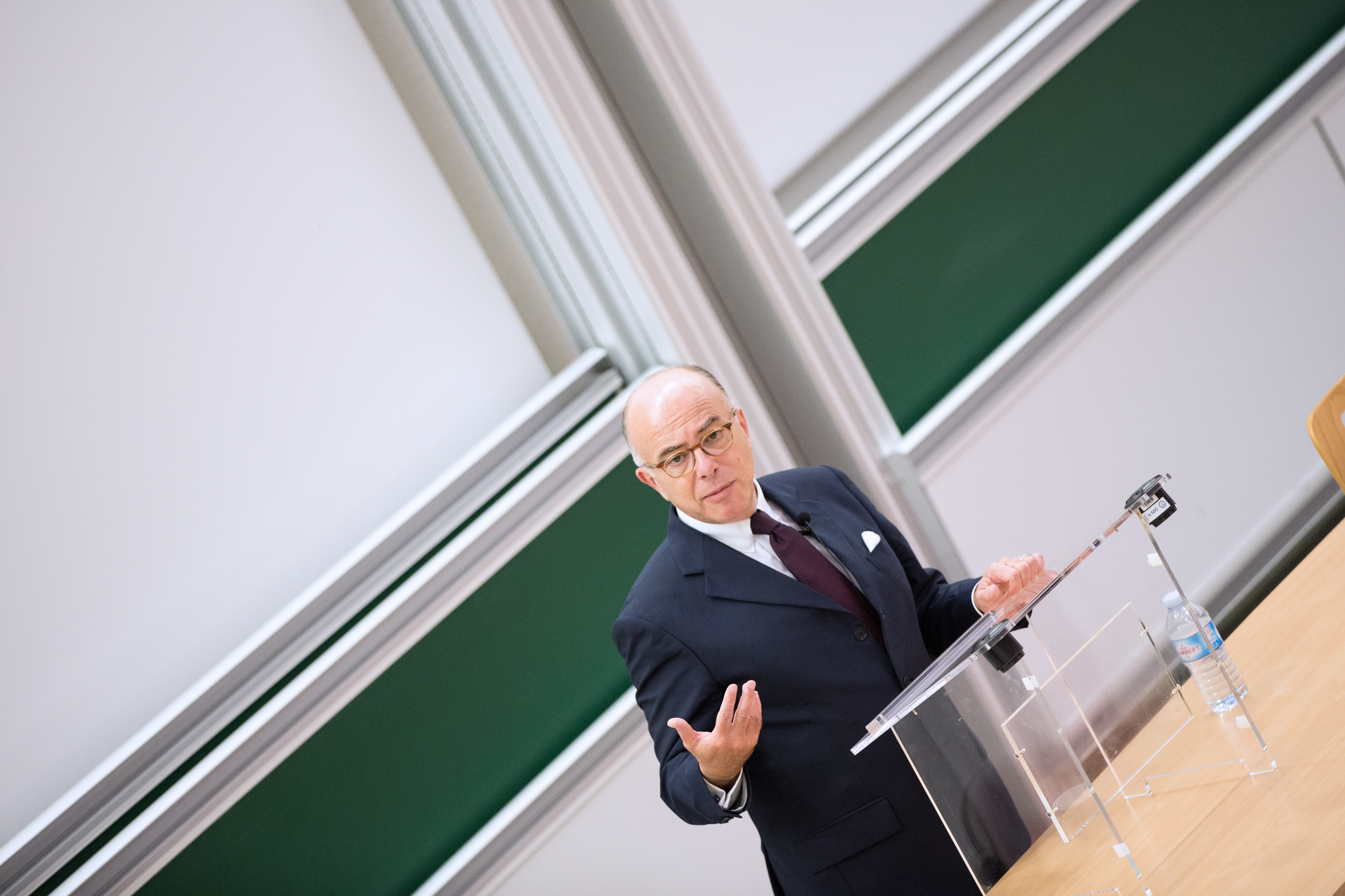 Conference of Bernard Cazeneuve, former Prime Minister of France, at the École Polytechnique